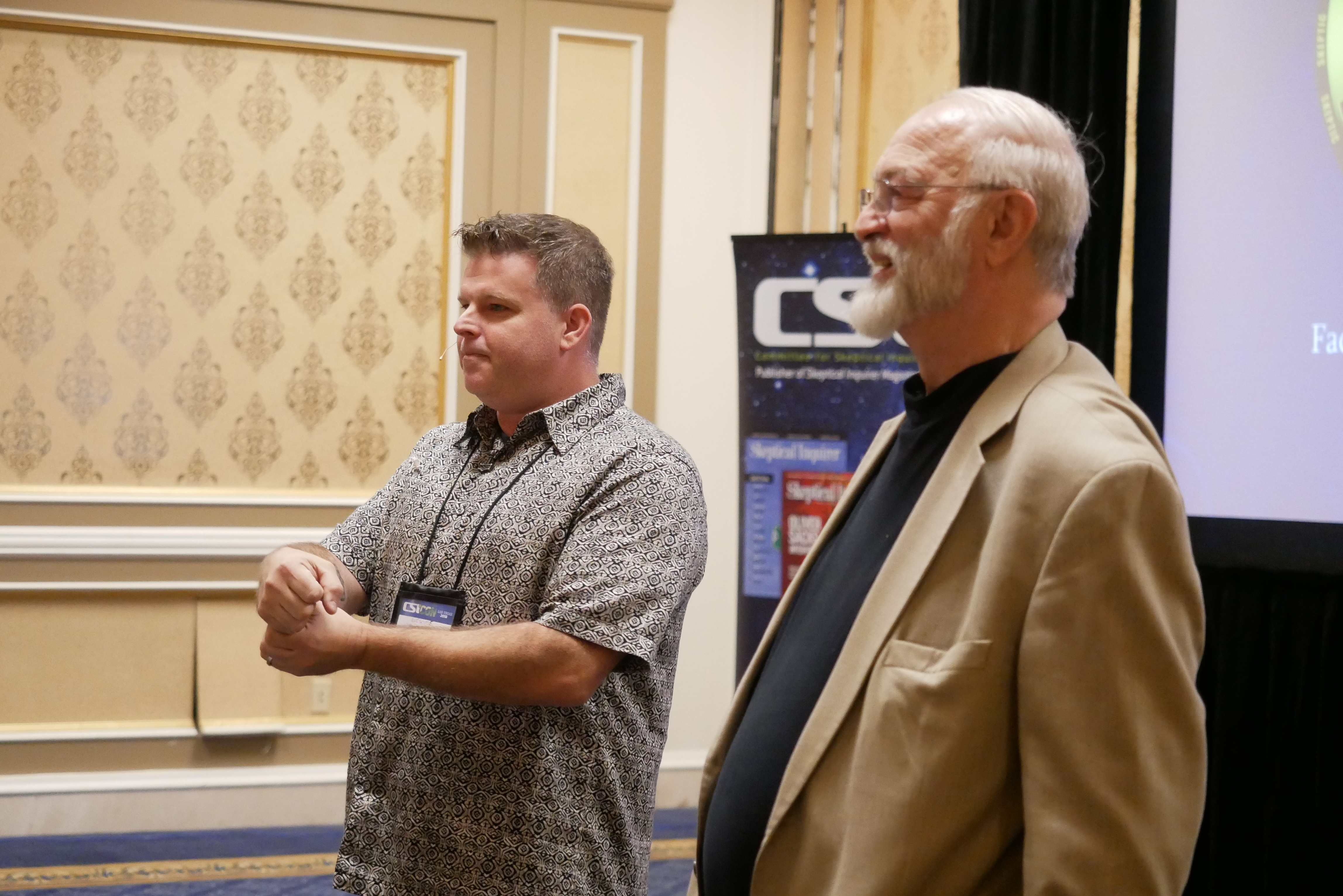 Kenny Biddle and Joe Nickell CSICon 2018